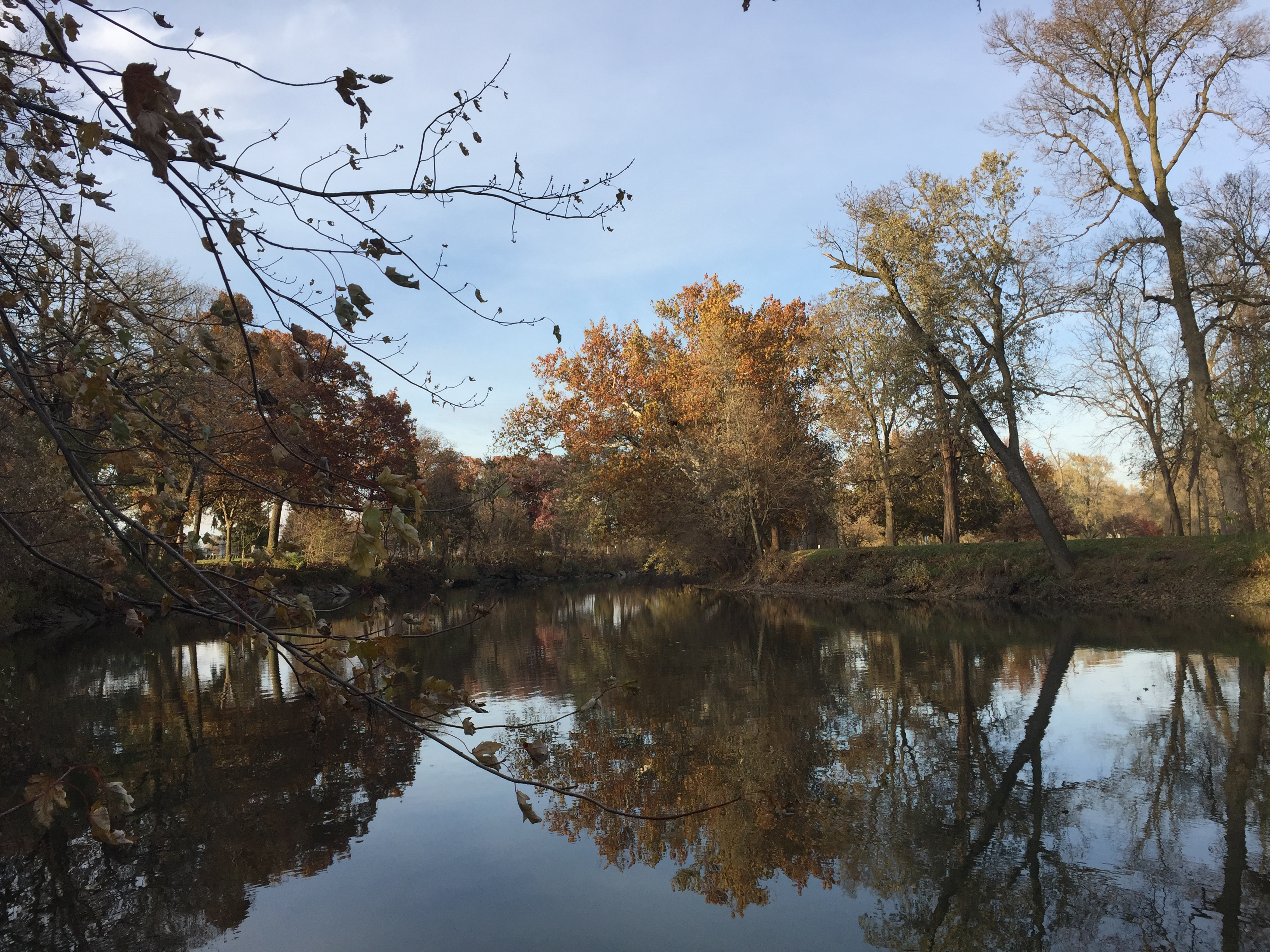 Vermilion River in Pontiac, IL. South Side Cemetery is along the far left bank and Chautauqua Park is along the right bank.